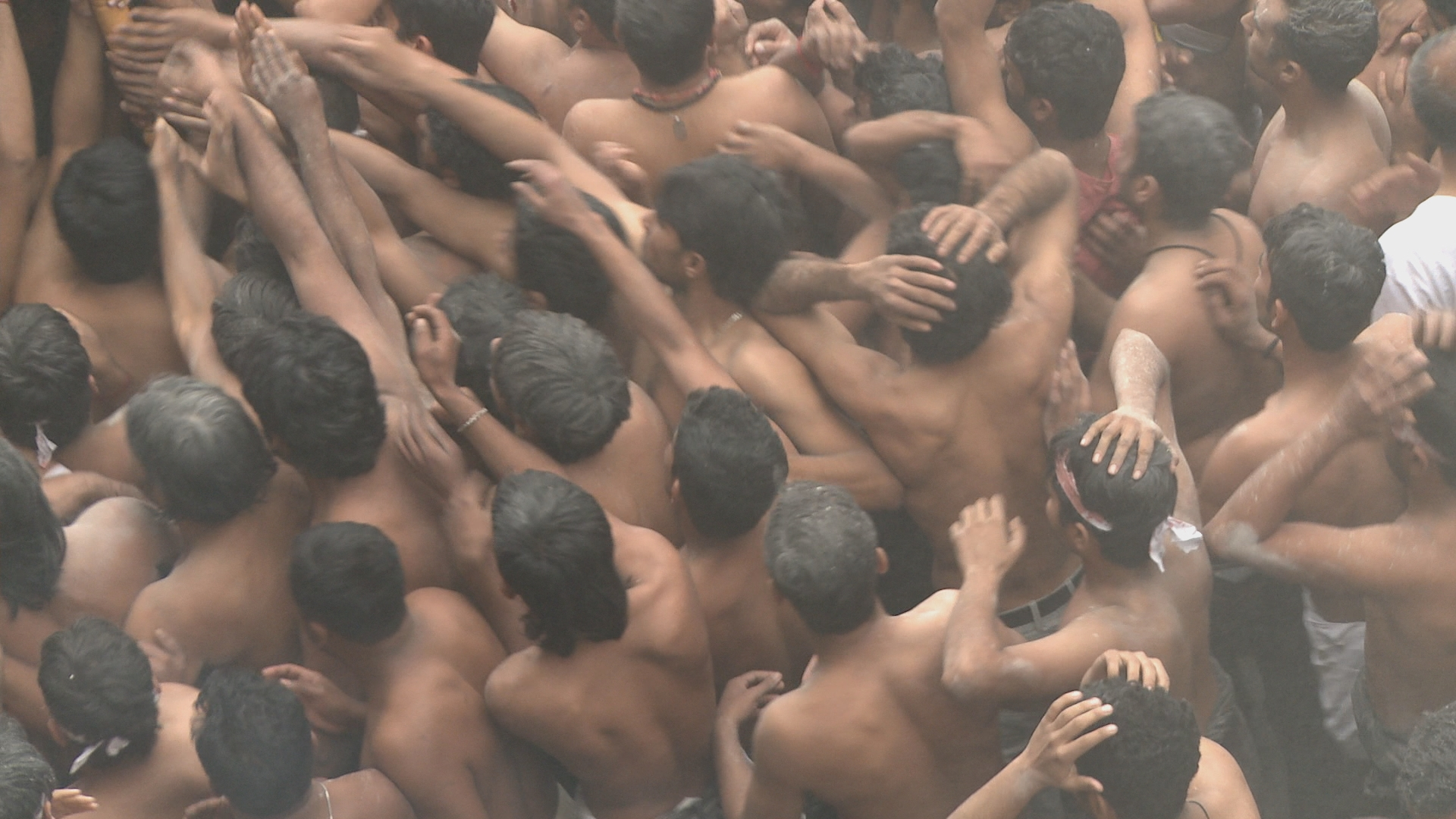 A scene from Vassilis Mazomenos' "10th day"